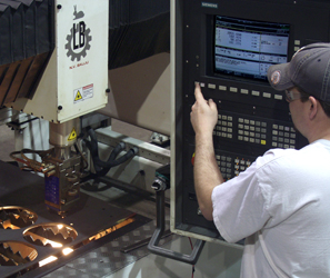 Industrial Laser machine for cutting sheet metal